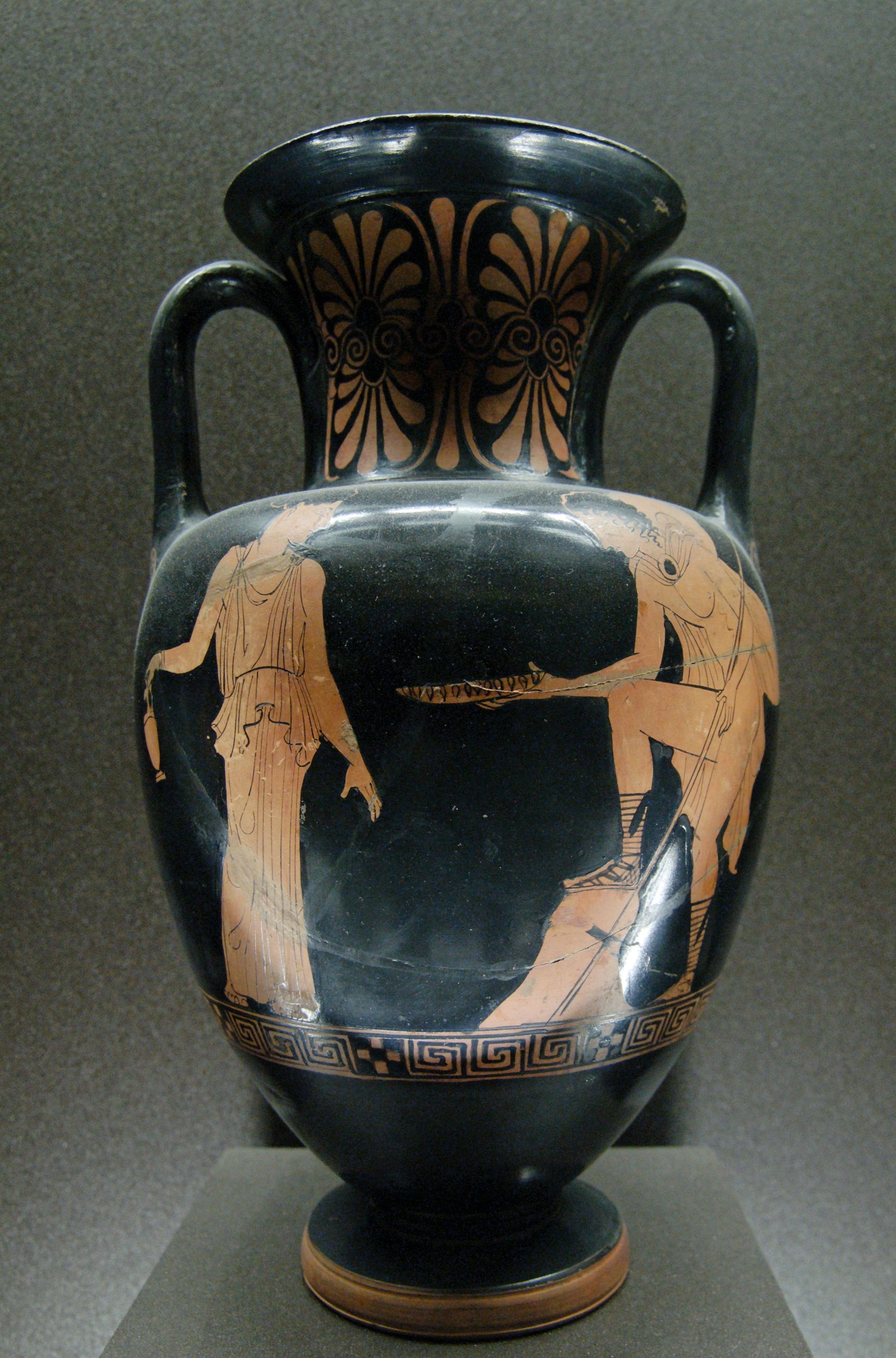 Woman and a young man, side A from an Attic red-figured neck-amphora, ca. 435–430 BC. From Athens.